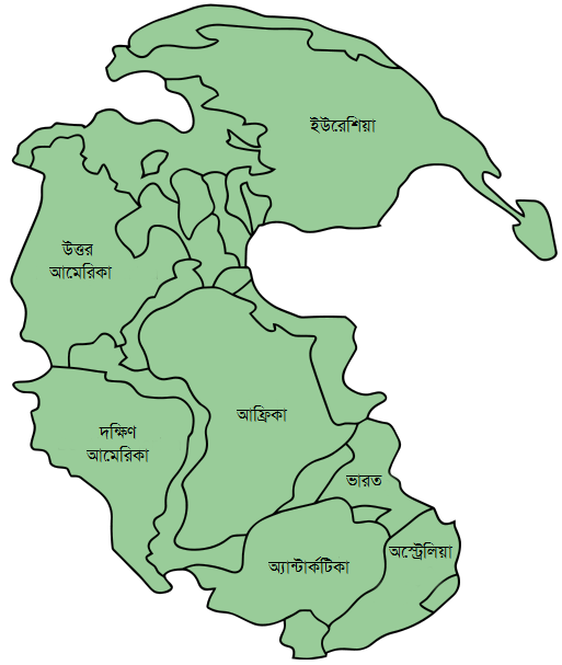 প্যানজিয়া